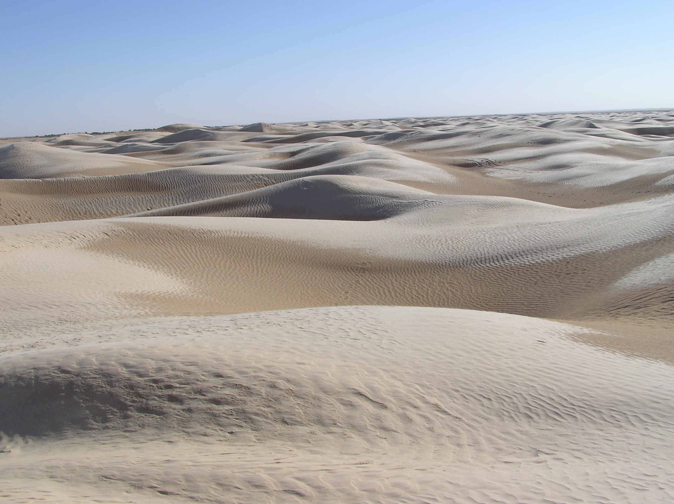 The Sahara desert close to the oasis of Tozeur in Tunisia